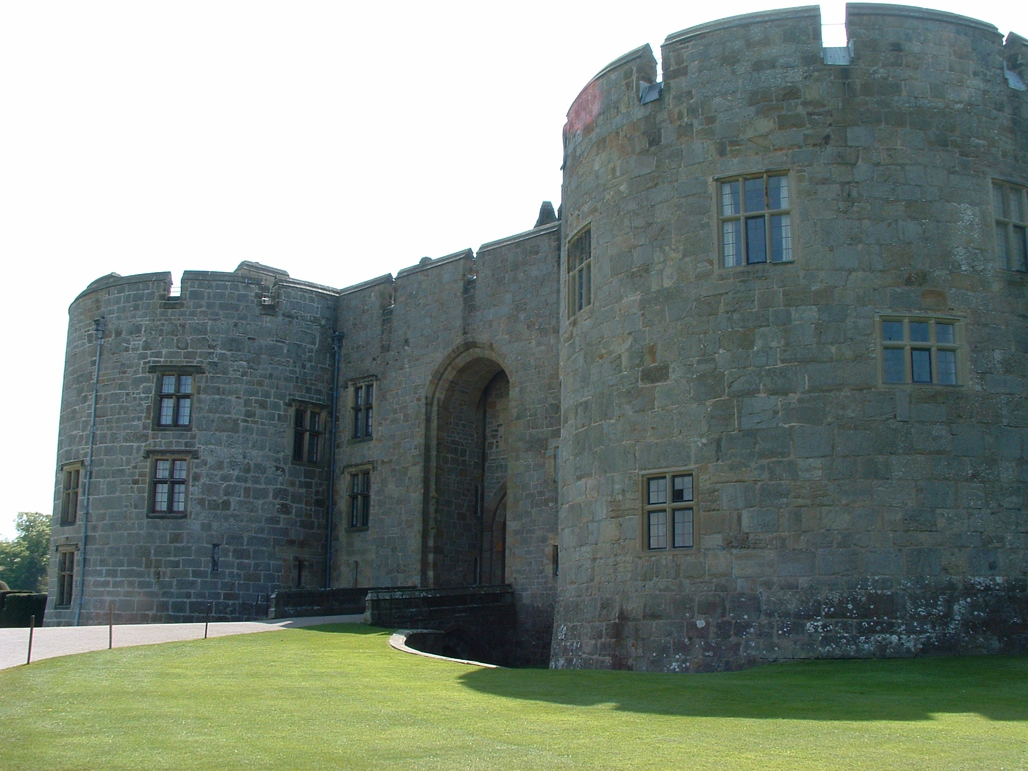 The main entrance of Castle Chirk Photo made by uploader, Akke.